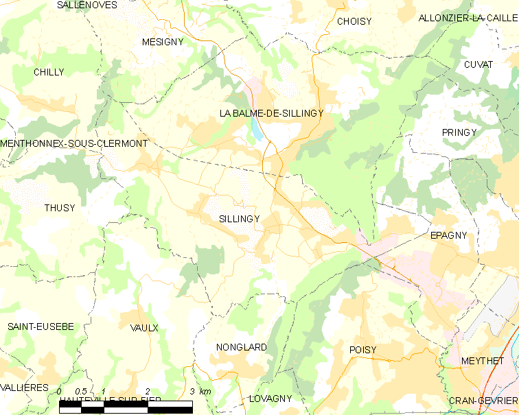 Map of French municipality Sillingy